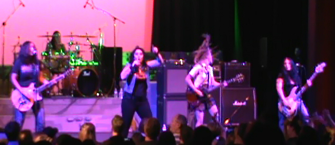 Hell's Belles, an all-ladies AC/DC tribute band, performing in Corvallis, Oregon on February 15, 2013.